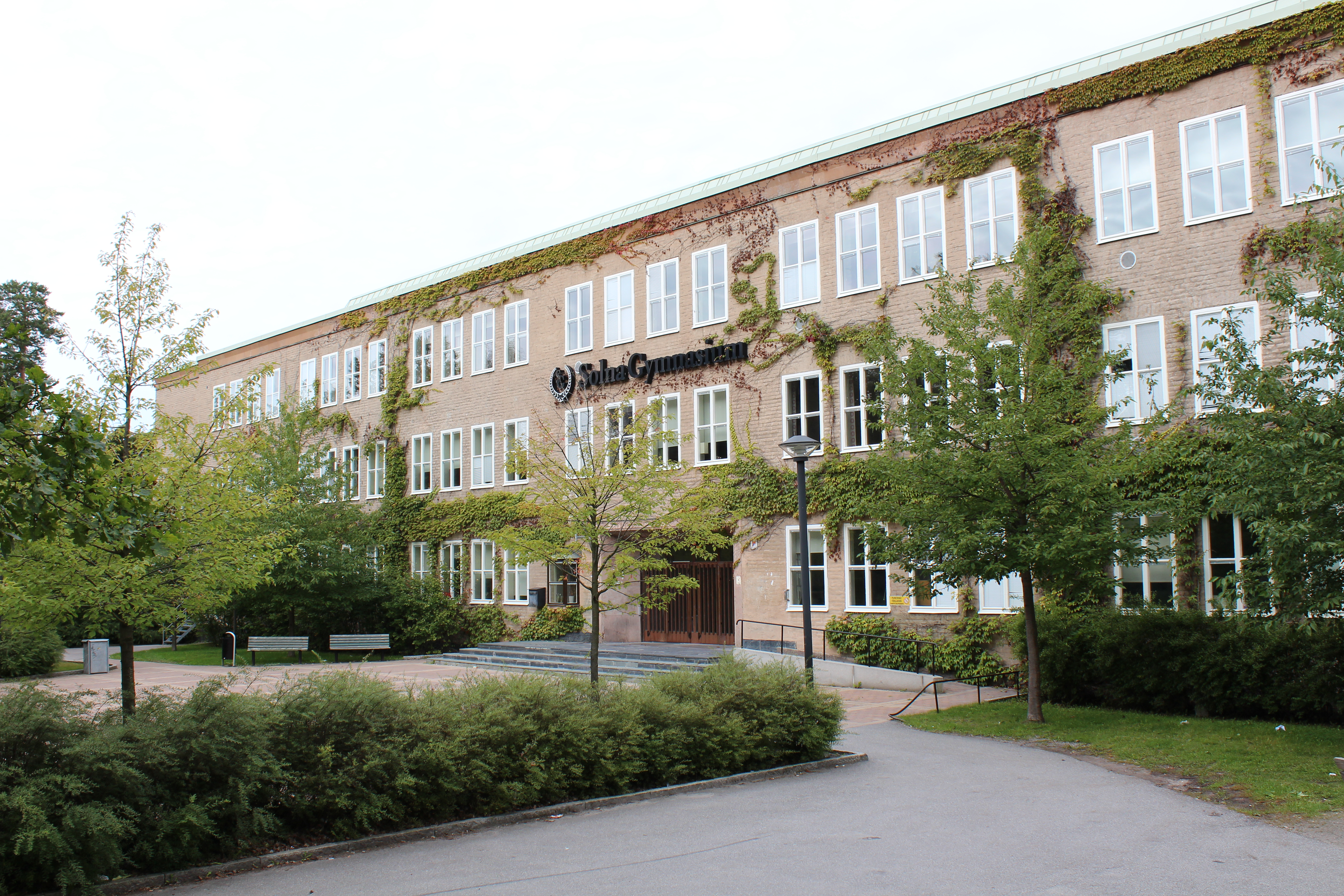 Solna gymnasium, Solna upper secondary school, Solna, Sweden